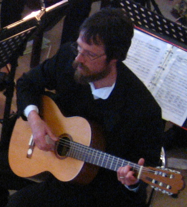 Helmut Kickton [1] plays Basso continuo (Guitar) Antonio Vivaldi: Celloconcert RV 399 (Orchestra of the kreuznacher-diakonie-kantorei) Public concert